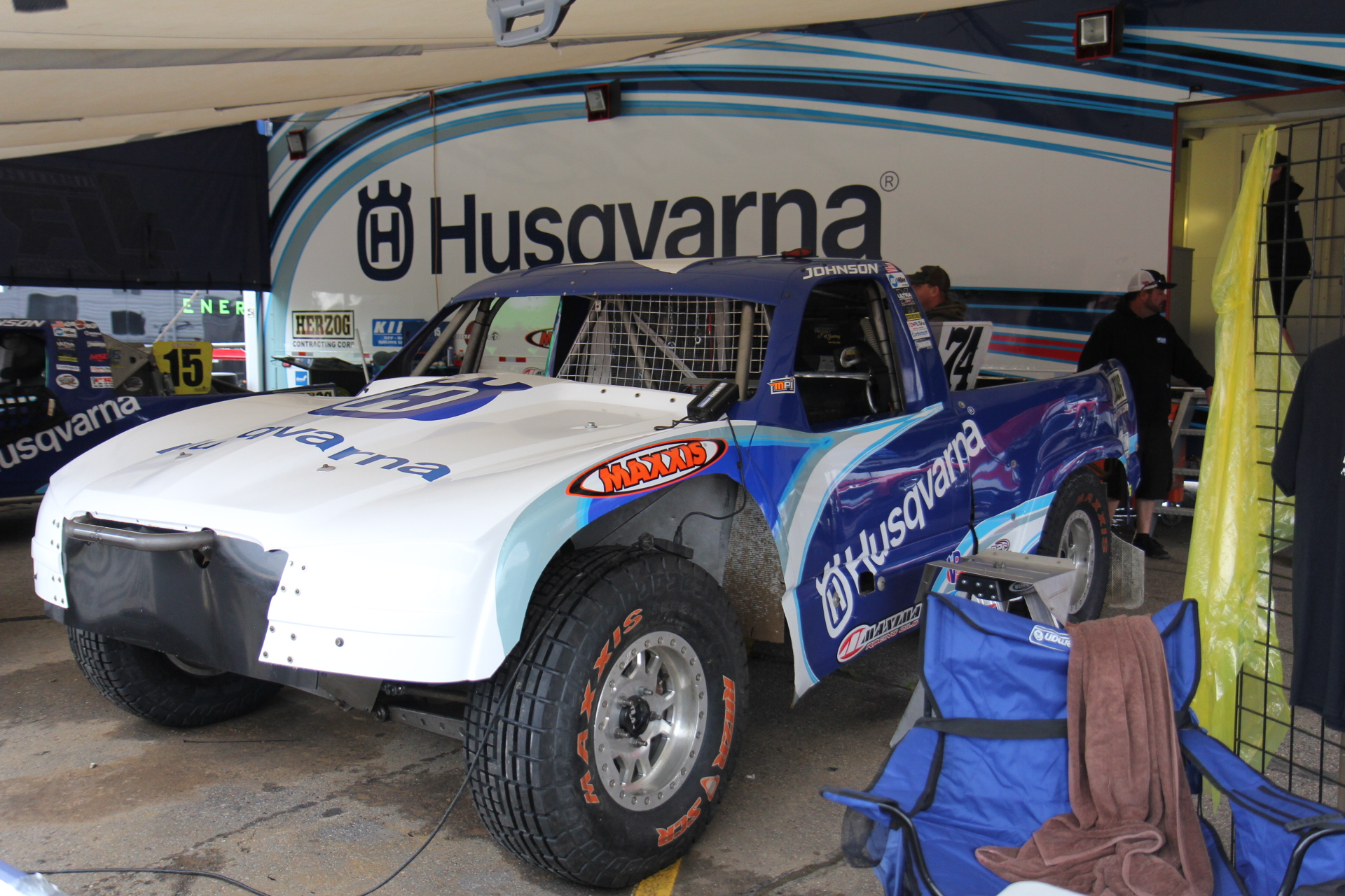 The TORC Pro 2 truck of Jarit Johnson in the pits at Crandon International-Off Road Raceway.